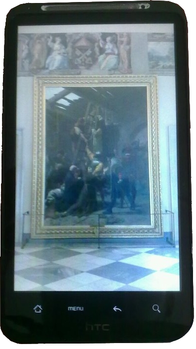 HTC Desire HD. Photo taken by Filnik (it's my phone). The photo on the screen was taken by me and it's on pd-self too.